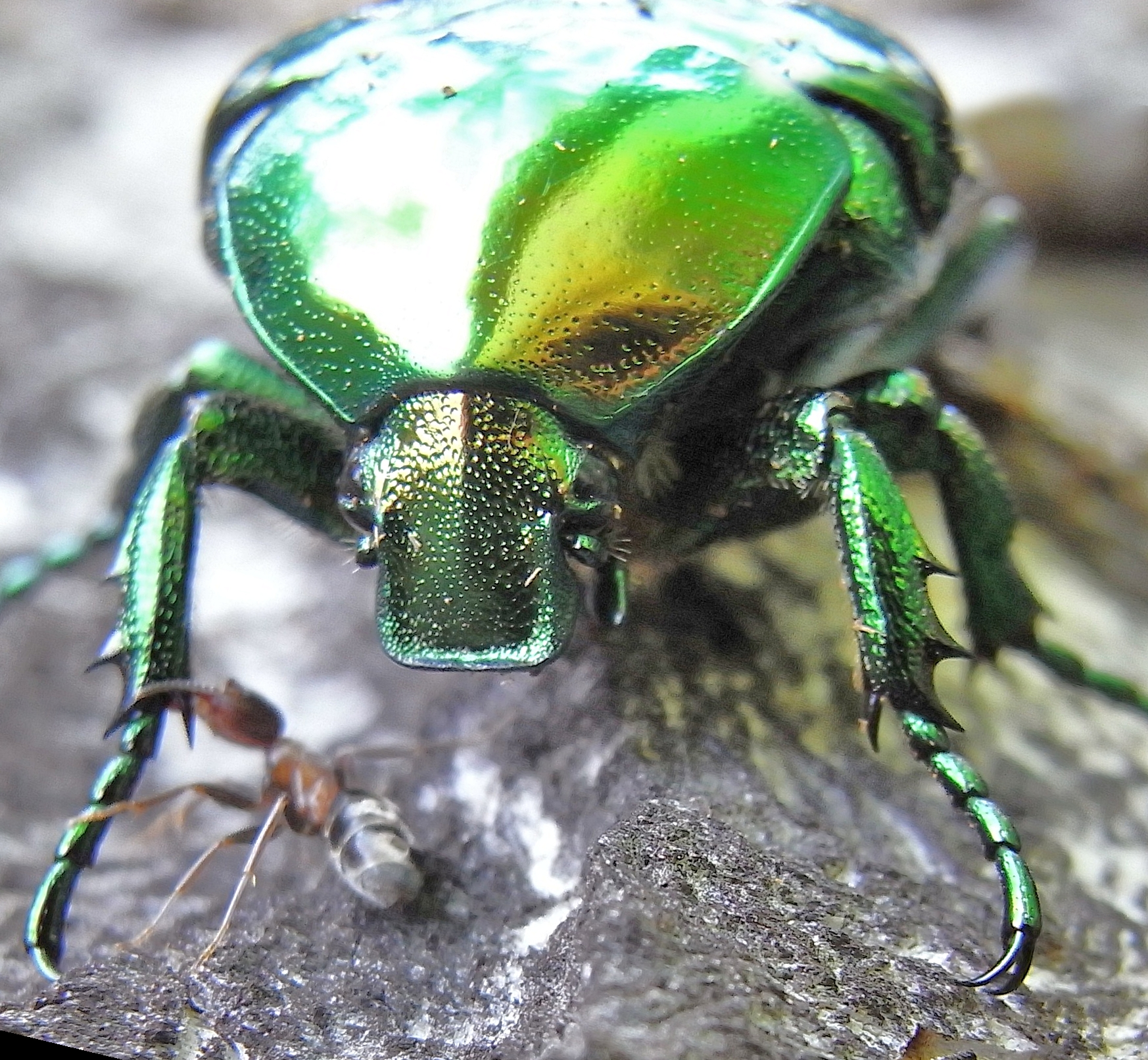 Protaetia aeruginosa from East-Hungary near Mezöbereny at 2010-05-27 Ricoh R8